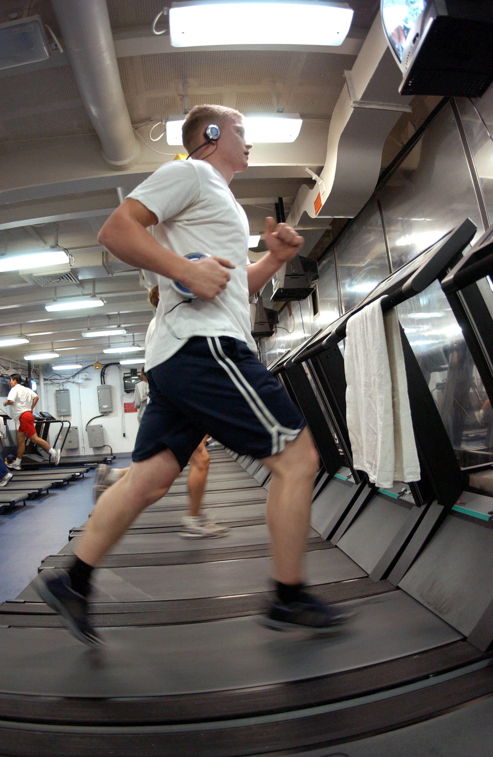 Pacific Ocean (Nov. 10, 2004) - Machinist Mate 3rd Class Lorne Semrau of Harrisburg, Pa., keeps in shape while underway by working out one of the many treadmills aboard USS Nimitz (CVN 68). Nimitz is currently conducting a Tailored Ships Training Availability I/II/III (TSTA I/II/III) and her Final Exercise Period (FEP) off the coast of Southern California. U.S. Navy photo by Photographer’s Mate Airman Shannon E. Renfroe (RELEASED)